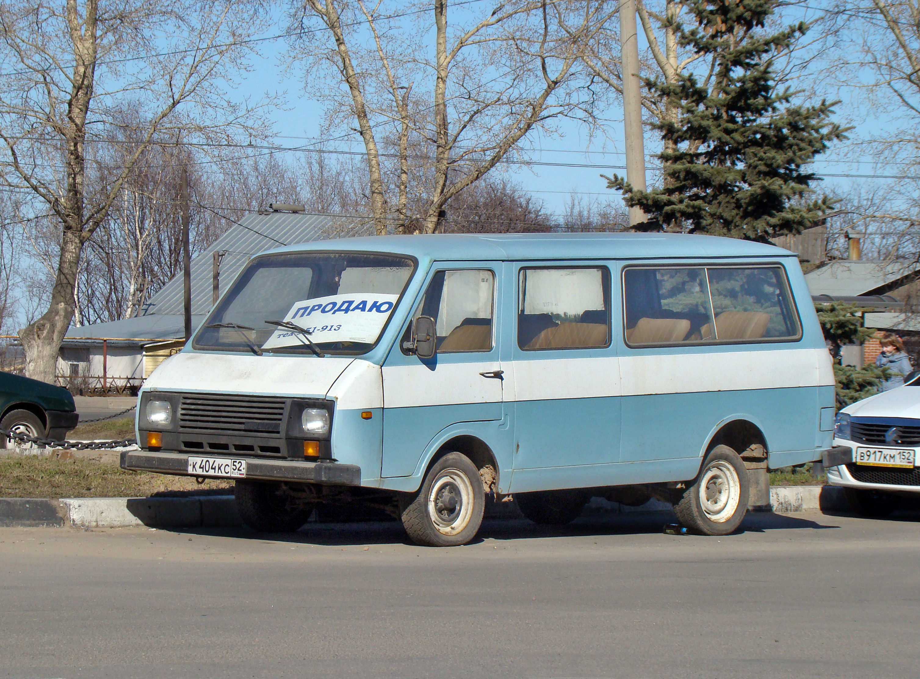 RAF 2203 in Nizhny Novgorod